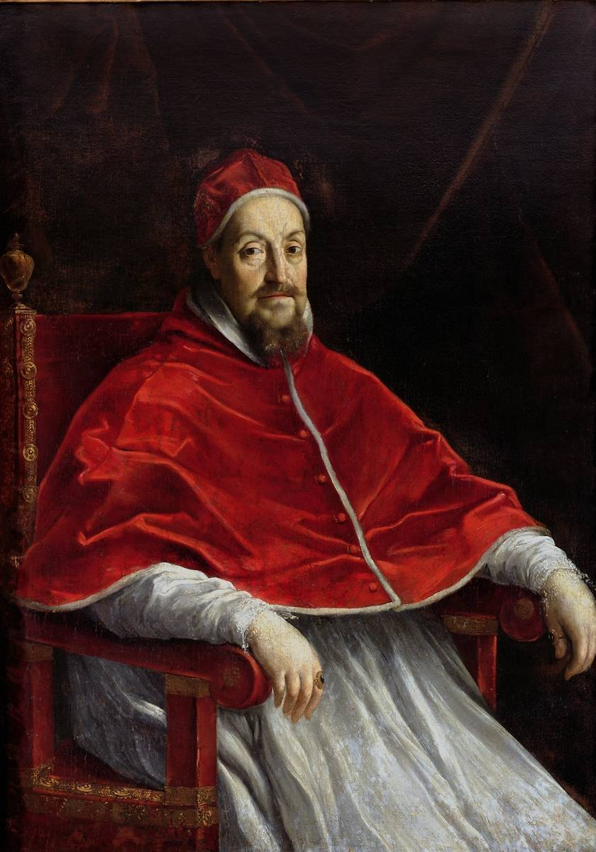 Portrait of Pope Gregorius XV